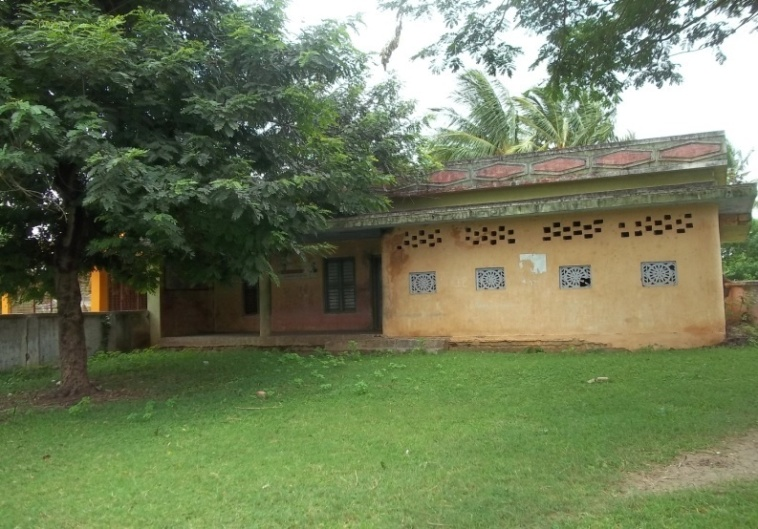 Zilla Parishad High School